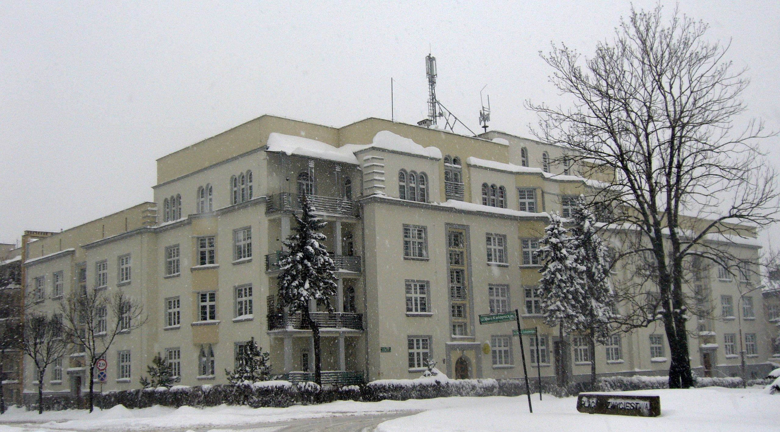 Officer's House on Jan III Sobieski Str. in Bielsko-Biała, Poland. Build in 1928 by A. Wiedermann.